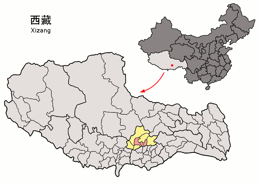 Location of Chengguan and Doilungdêqên (pink) and Lhasa (yellow) within Tibet (Xizang) autonomous region of China